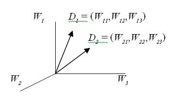 Vector Space Model